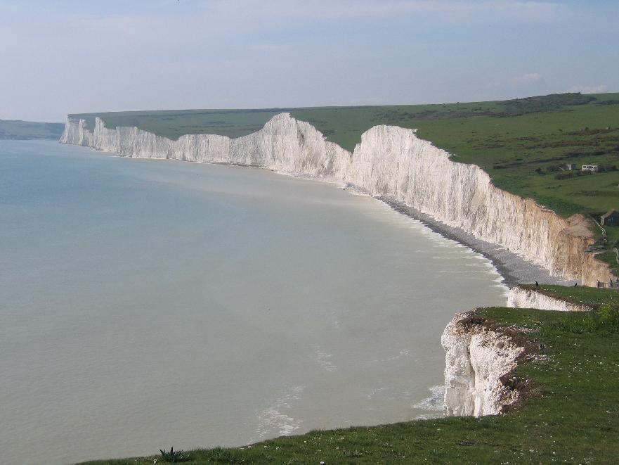 The chalk cliffs known as the Seven Sisters, on the coast of East Sussex, as viewed from just east of Birling Gap, April 30, 2005. The headland to the far left is Seaford Ness.